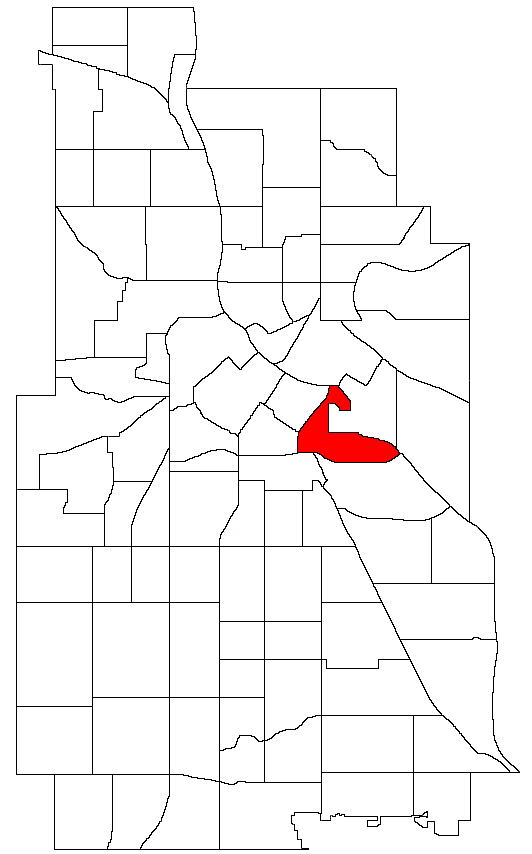 Location of Cedar-Riverside neighborhood in Minneapolis